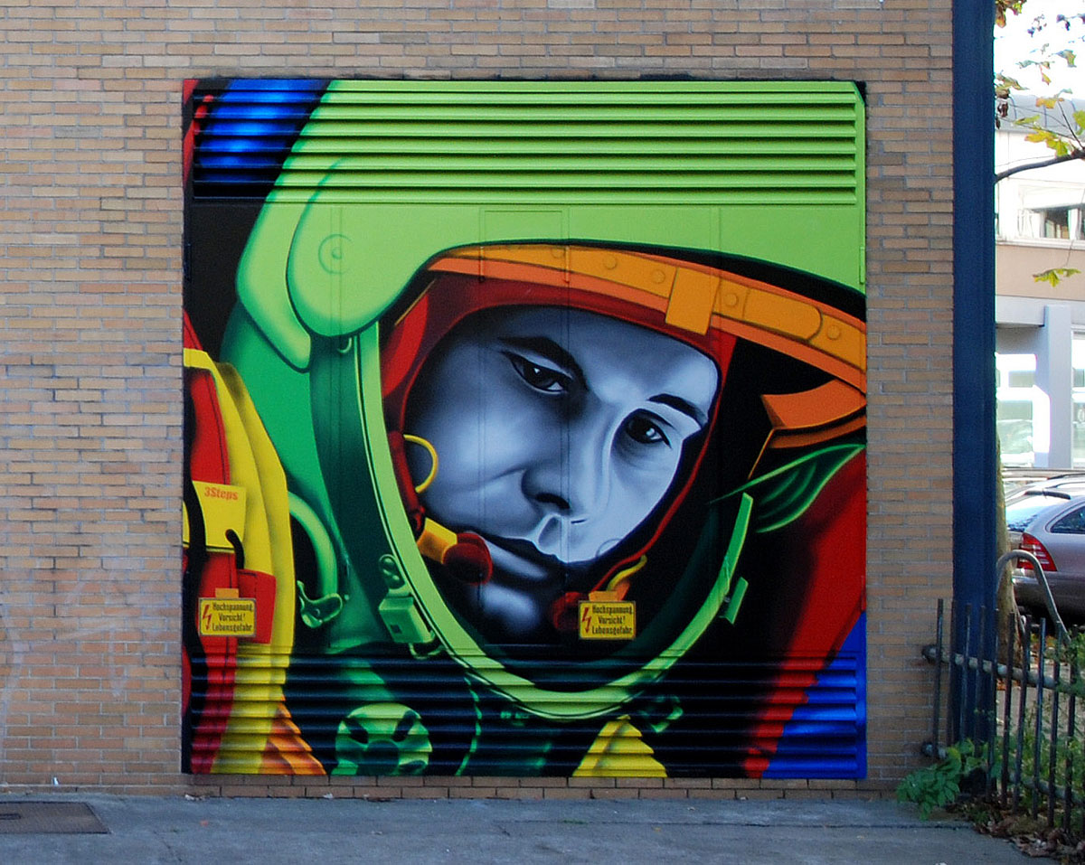 SiveOne and Mr. Flash painted on the subject of technology, research and science a pop art portrait of Juri Gagarin during 11.11.2011. Gagarin was the first cosmonaut of the humanity. He has circuited the earth in space fifty years ago. The graffiti art of 3Steps is to be found on a building at the Technische Hochschule Mittelhessen university campus in Giessen.